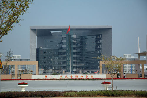 ZJUT campus in Quzhou